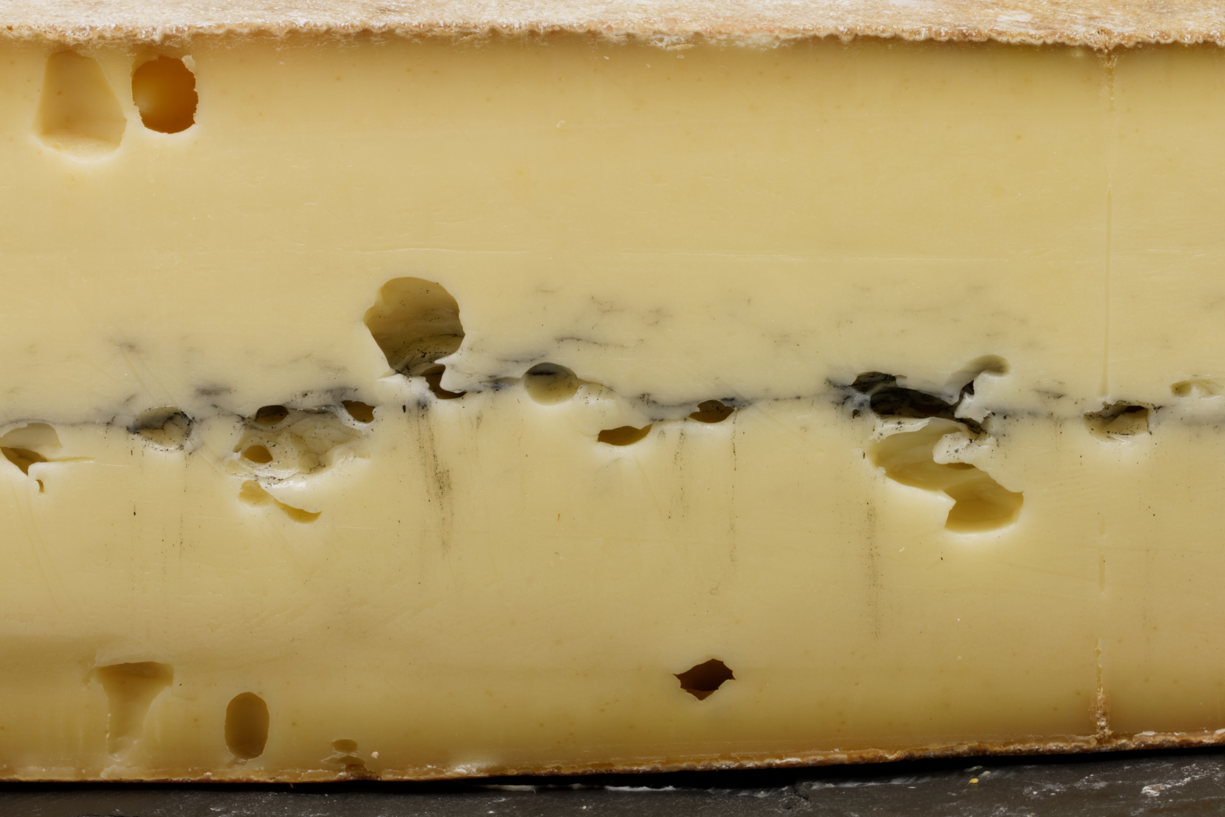 Morbier